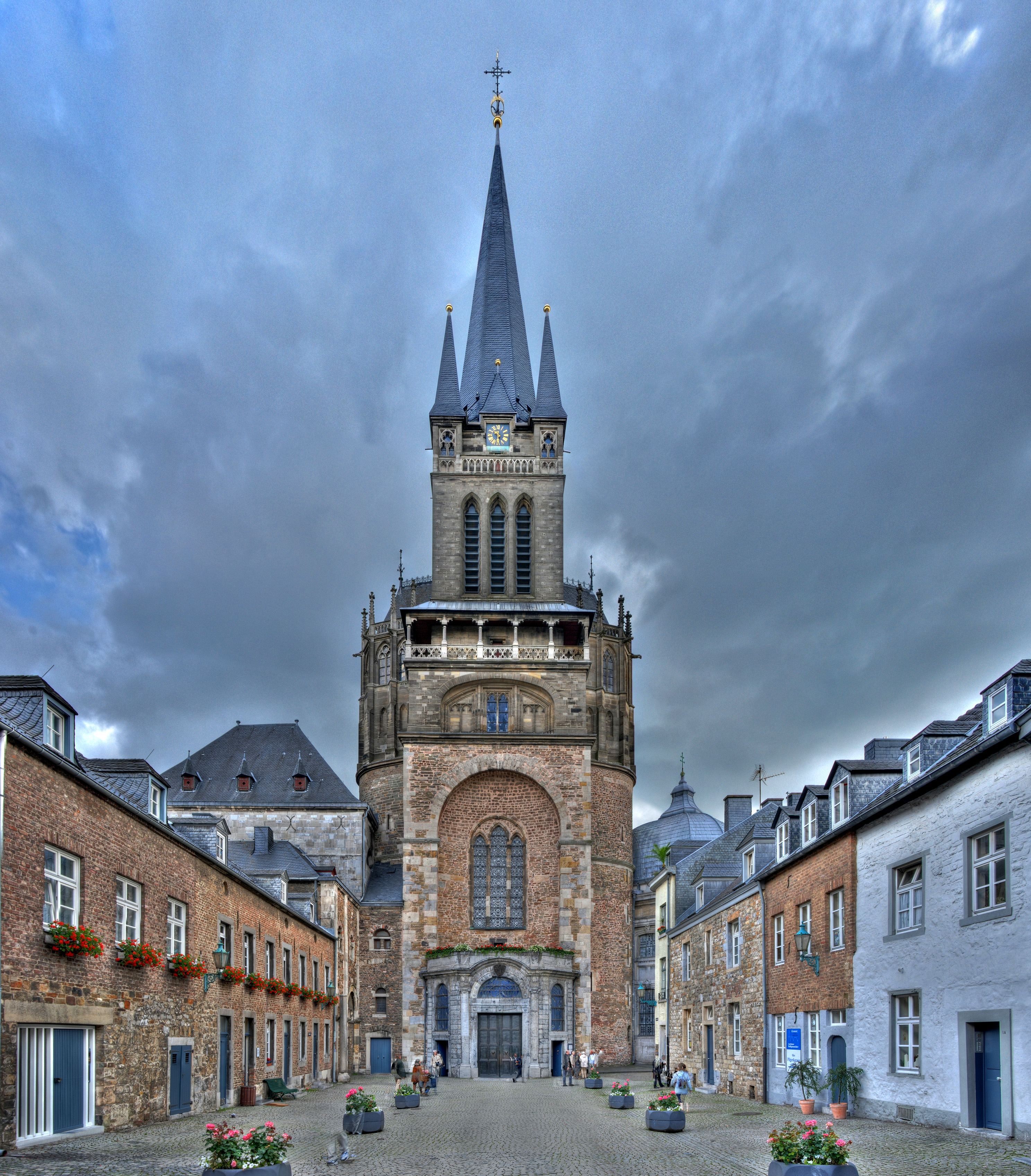 The Aachener cathedral main portal seen from west. This picture is made up of 18 single HDR images using PTGui.